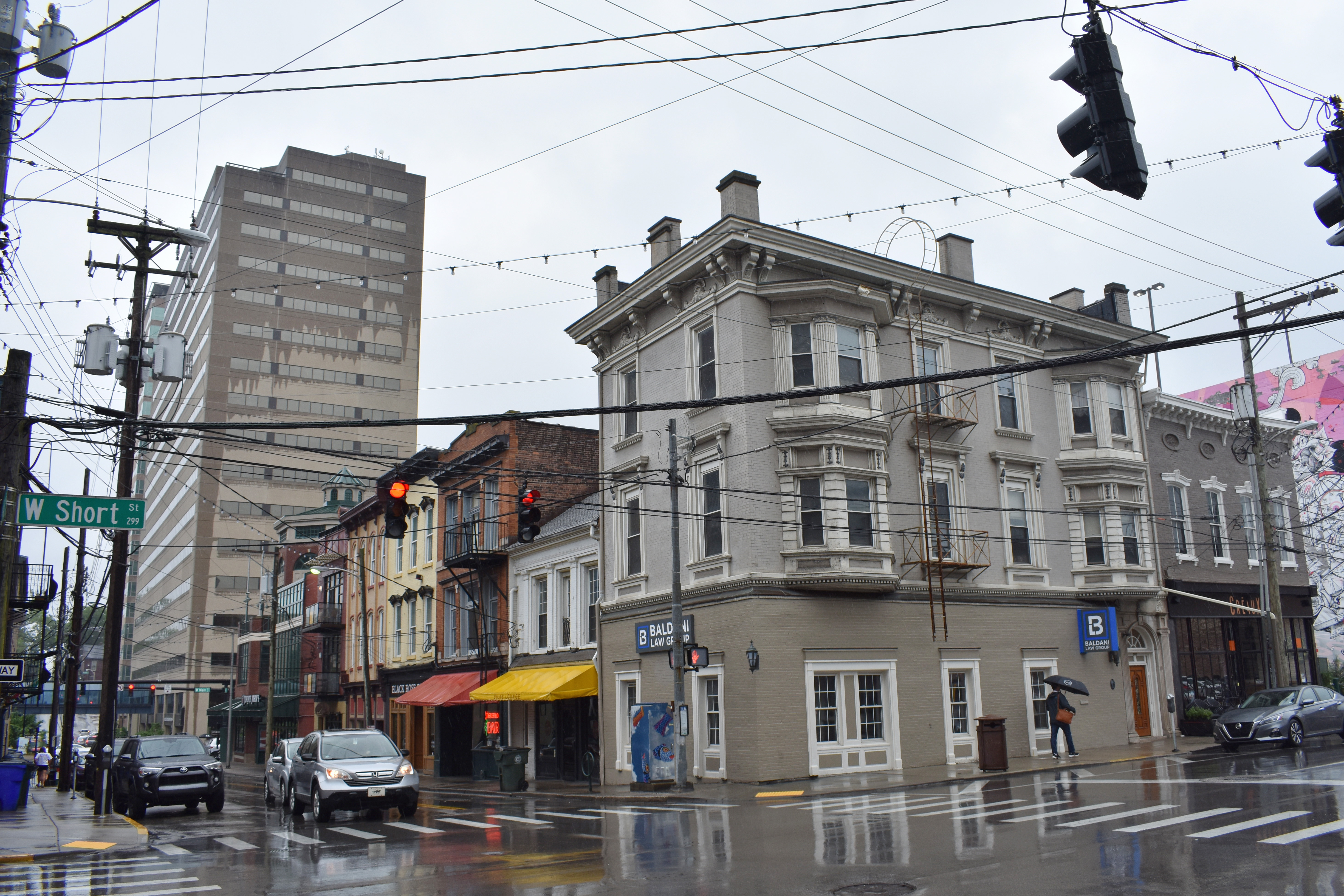 The Downtown Commercial District in Lexington, Kentucky, is listed on the National Register of Historic Places.